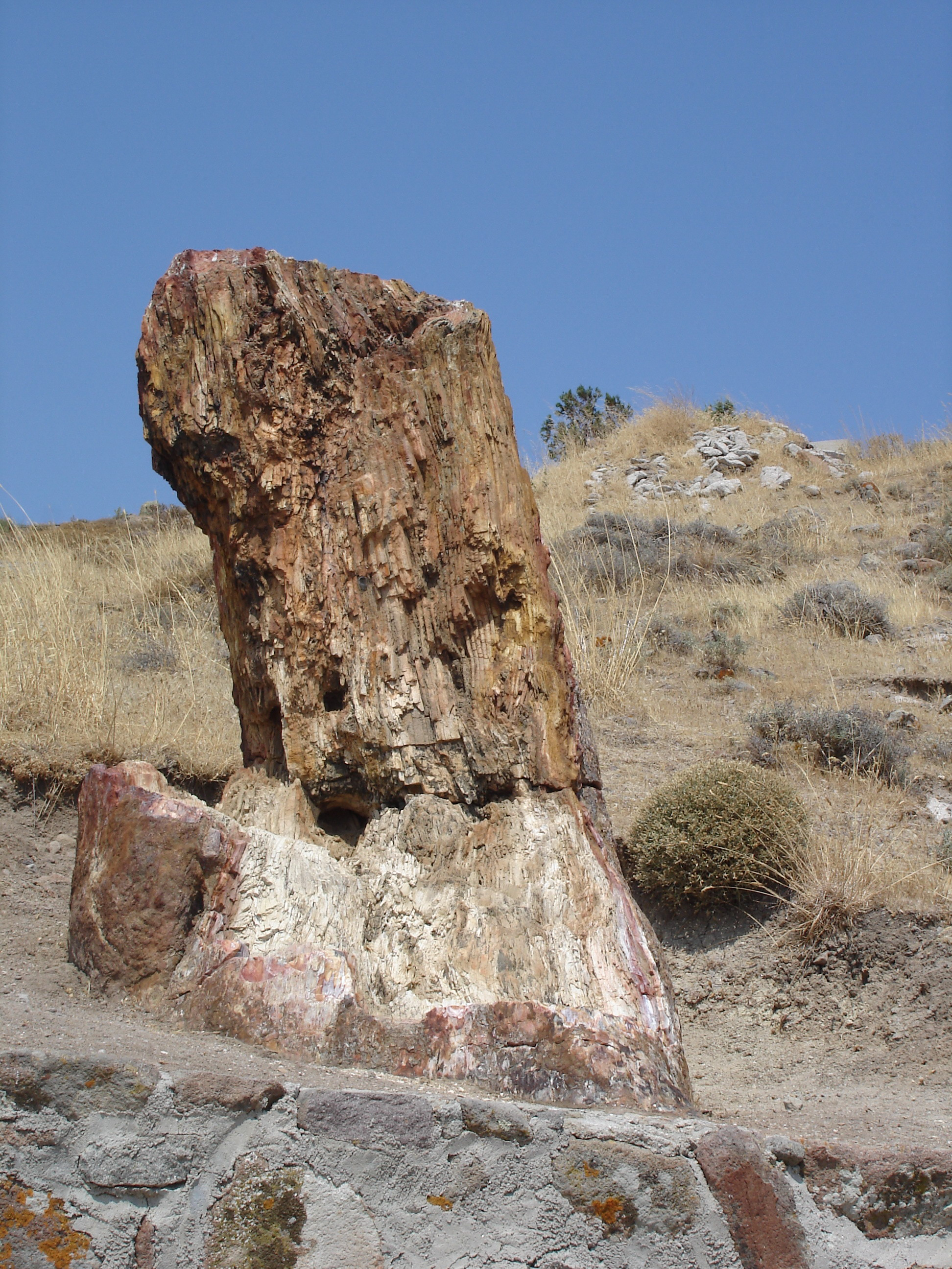 Petrified wood near Sigri, Lesbos, Greece